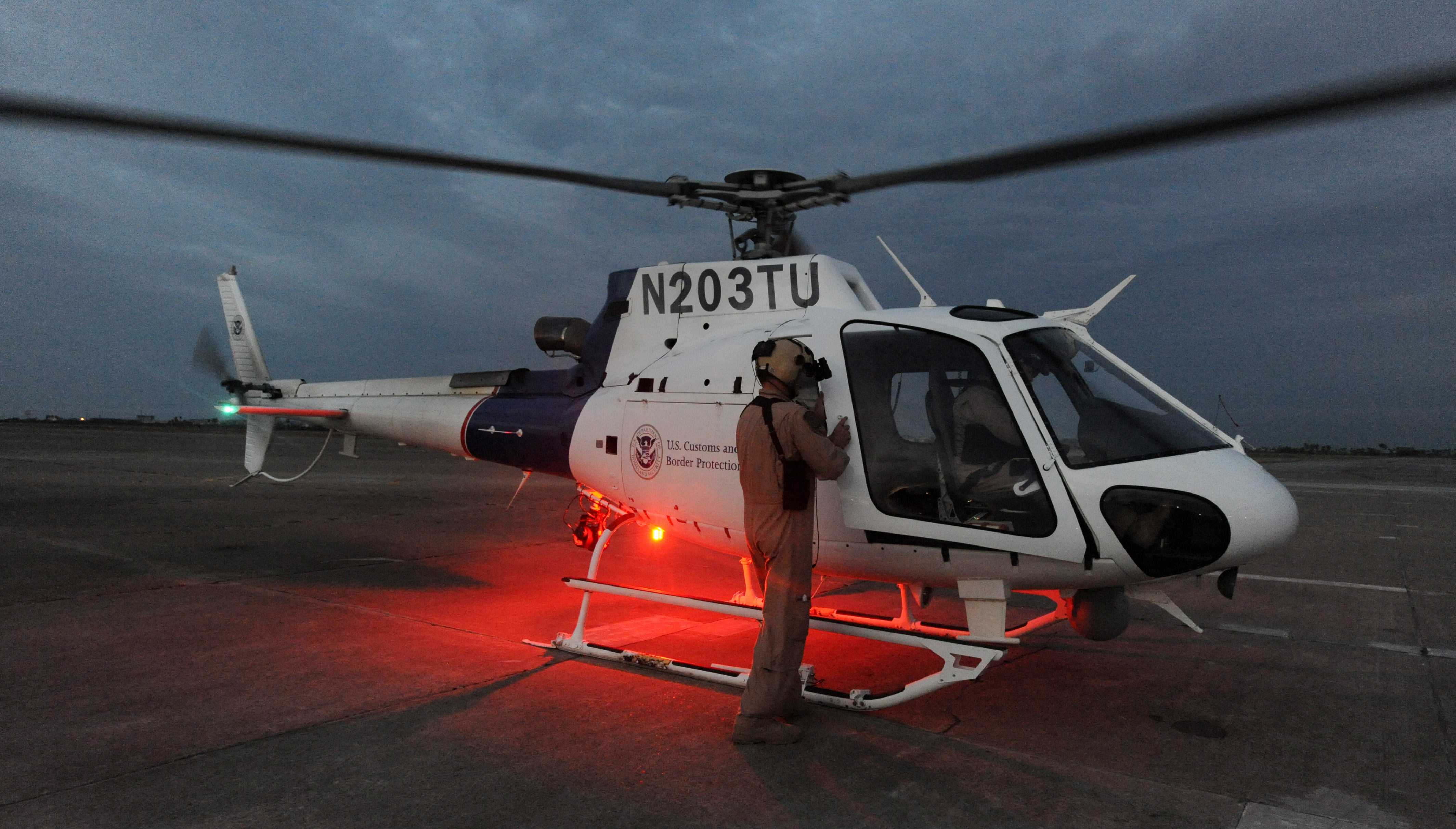 Galveston Island, TX, September 24, 2008 -- A helicopter crew from US Customs and Border Protection land at the local airport to take federal partners on an aerial tour of areas impacted by Hurricane Ike. Jocelyn Augustino/FEMA